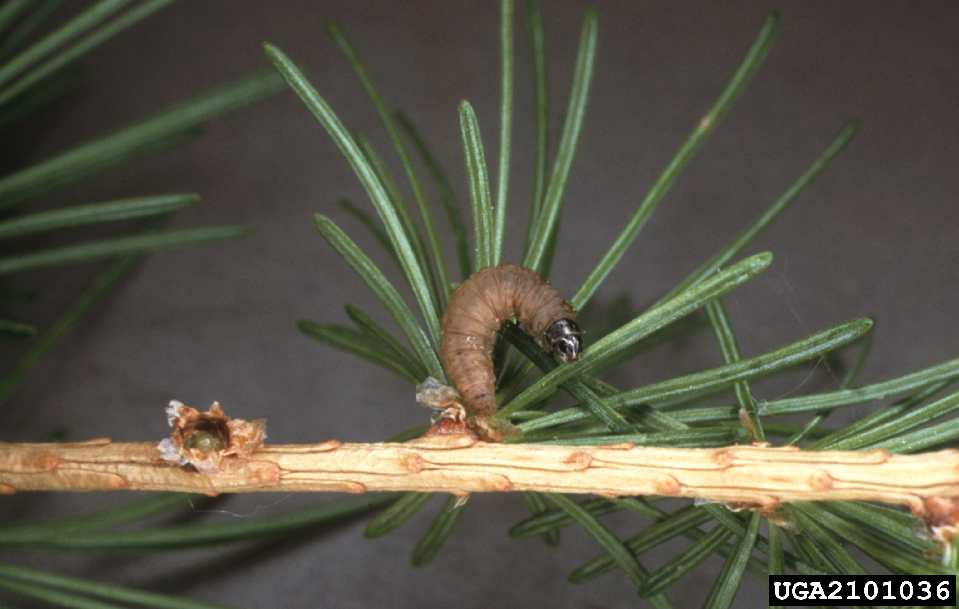 larch bud moth on European larch (Larix decidua P. Mill.)